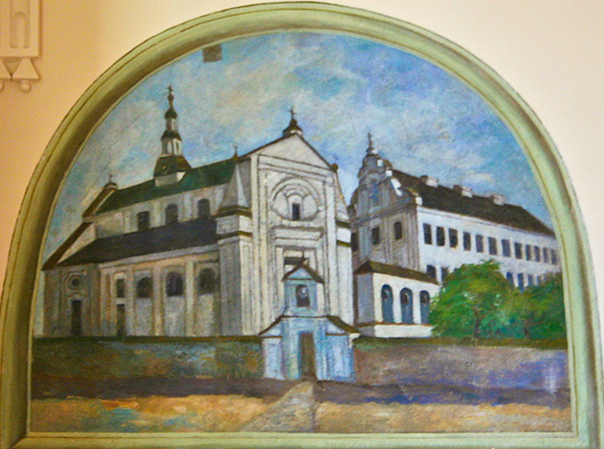 monastery and church of Trinitarians